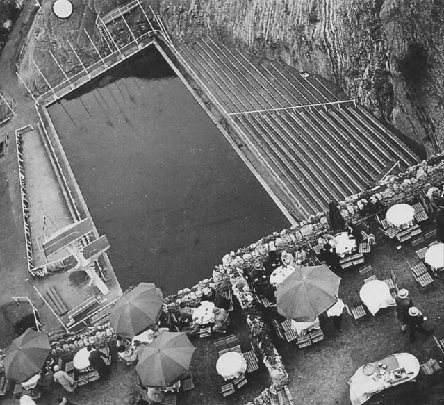 Barrandov swimming pool under Barrandov terraces (Prague, Czech republic) in year 1930.